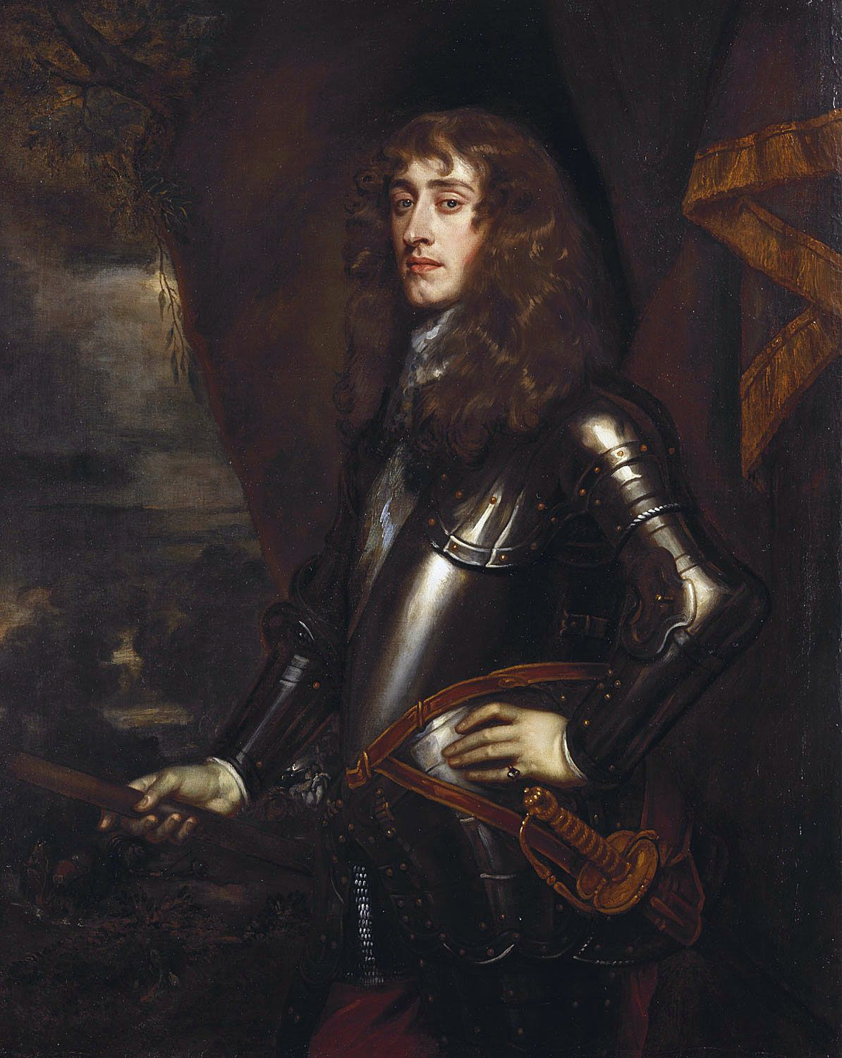 Portrait of James II, when Duke of York